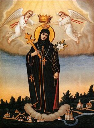 Euphrosyne of Polatsk (icon)